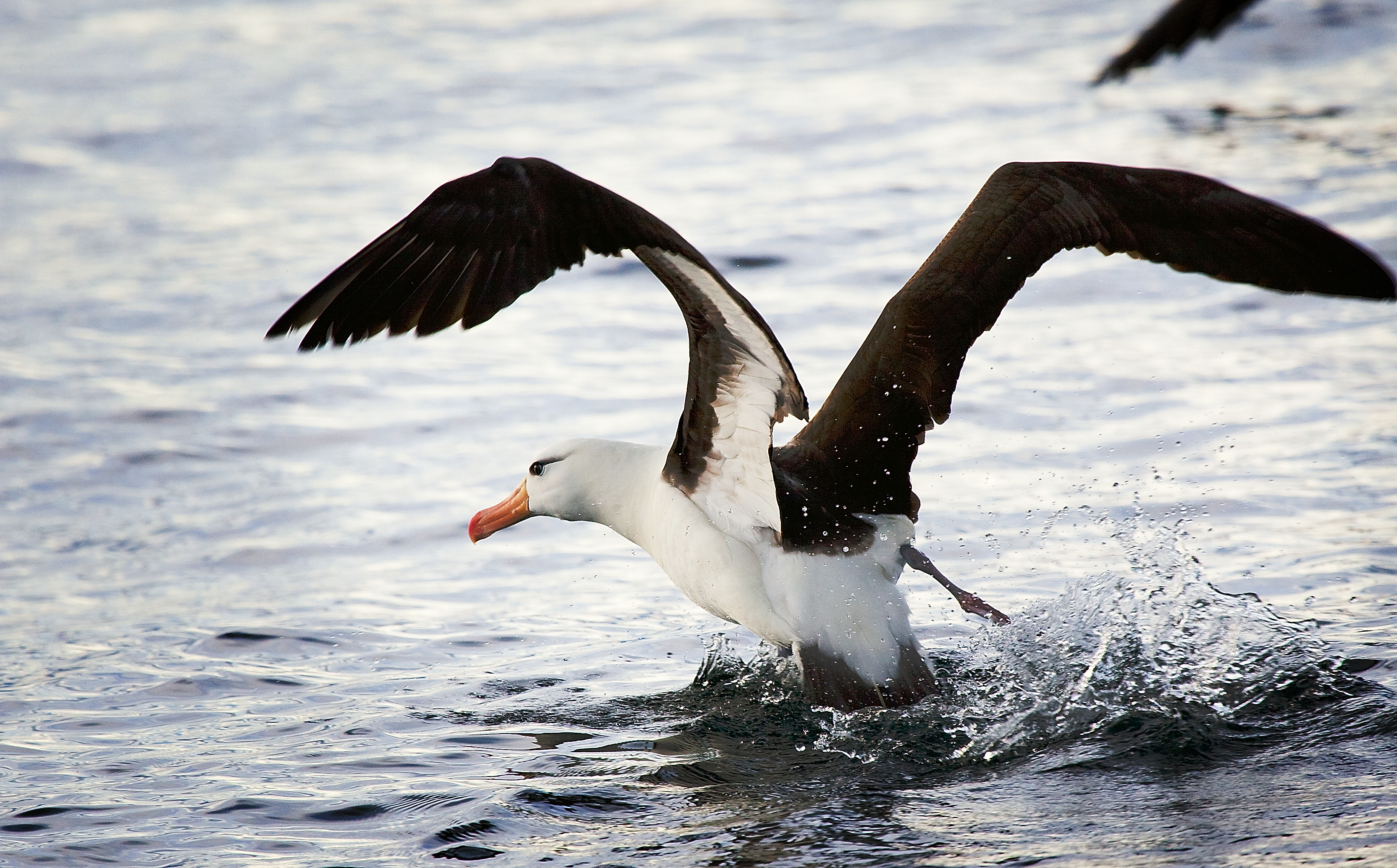 Black-browed Albatross (Thalassarche melanophrys) in the Beagle Channel, Argentina